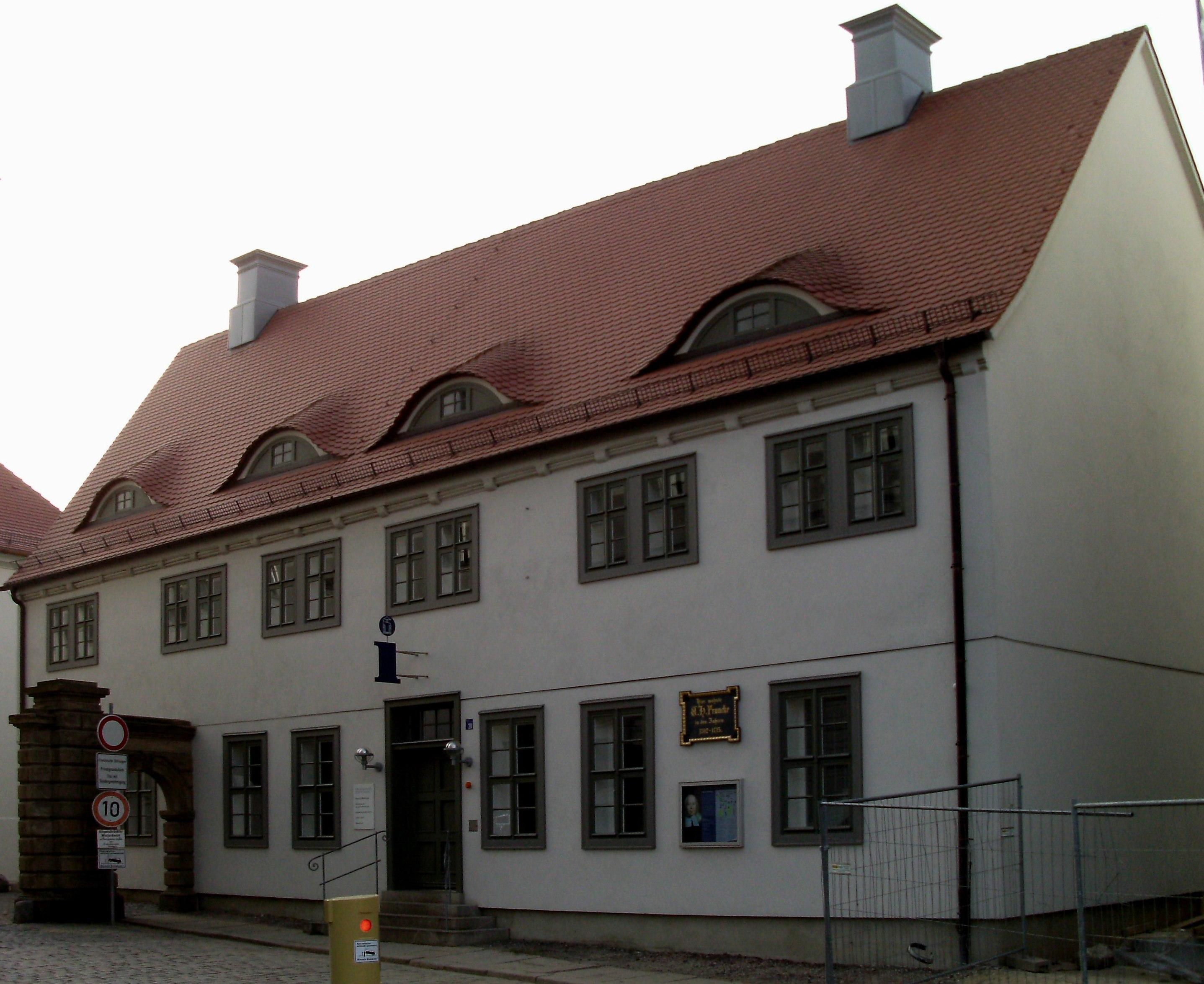 August Hermann Francke's home at the Francke Foundations in Halle (Saale)